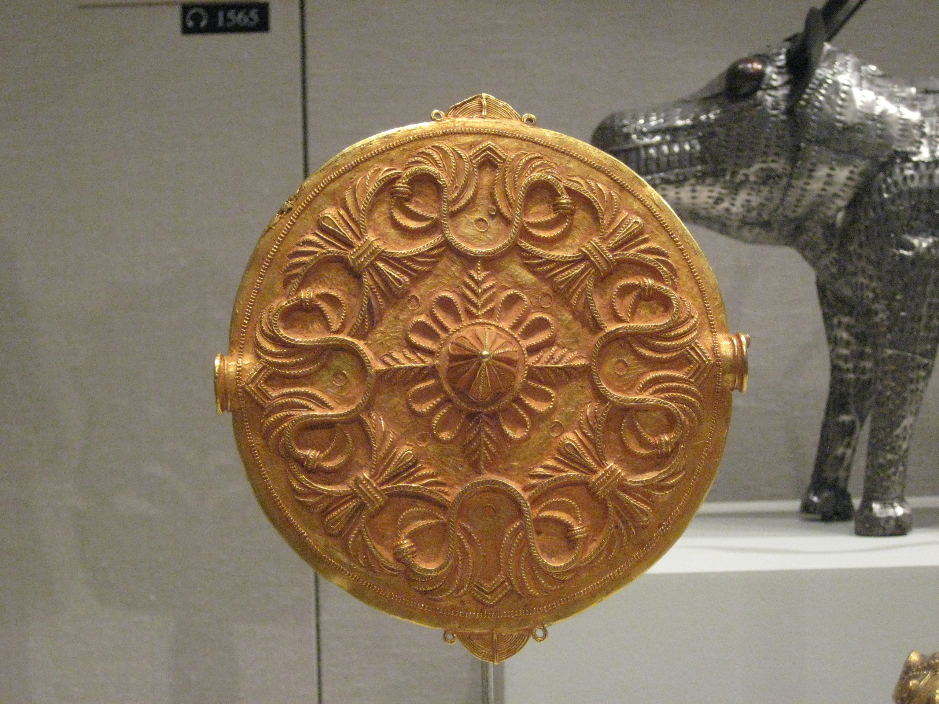 Ashanti soul washer badge or Akrafokonmu, 18th century Ghana is part of an area that was a major source of gold for European and Islamic markets prior to the discovery of the metal in the Americas. The Asante and other rulers there maintained large courts of officials. One group of high-ranking attendants at court participated in ceremonies glorifying the king wore a special gold disk known as a "soul-washer's badge." Ghana, Asante group, Akan peoples 18th - 19th century Gold Item number: L.1982.92